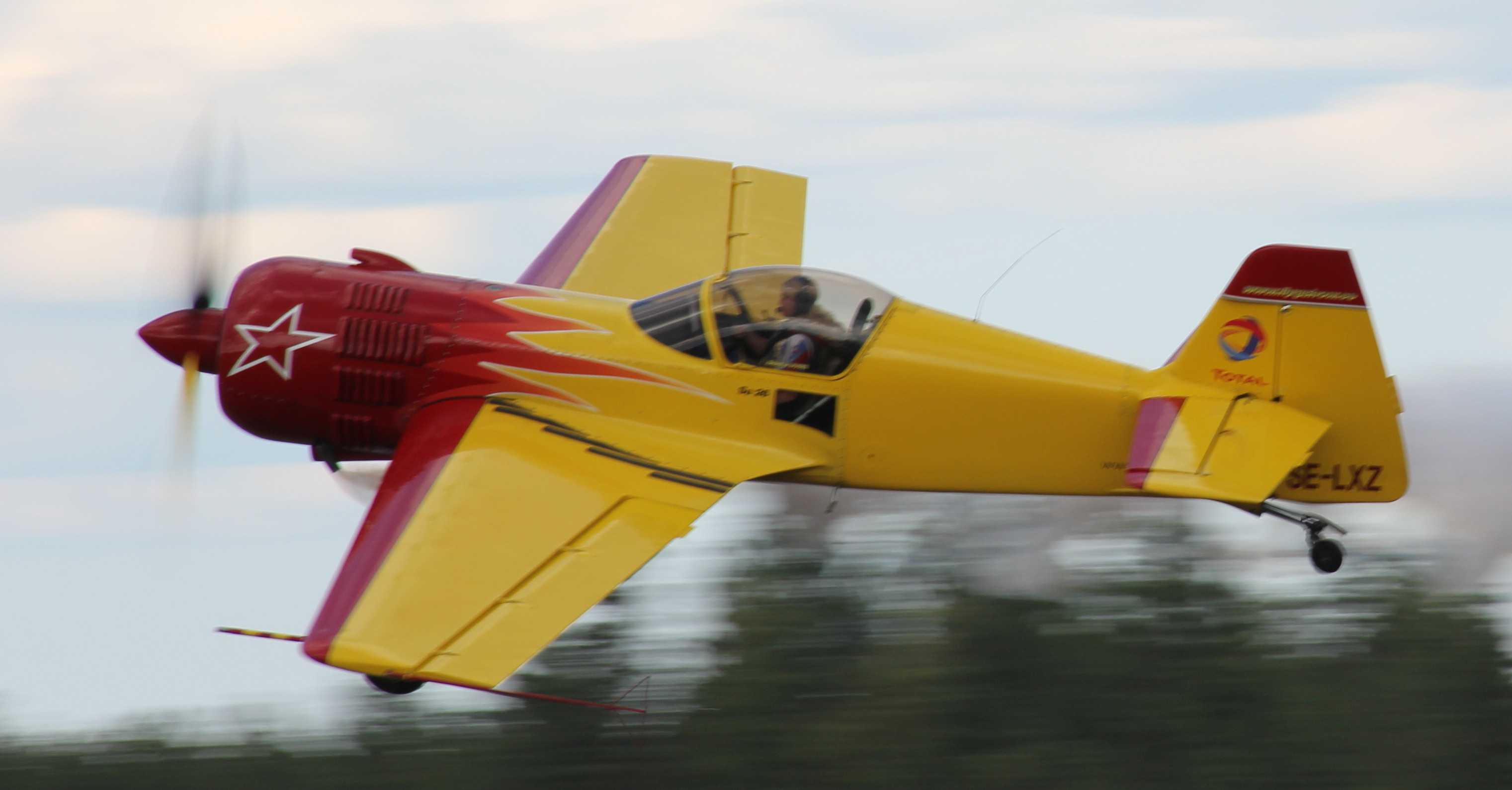 Svetlana Kapanina (RUS), in Oripää Air Show 2013, Oripää, Finland. Starting her performance with Daniel Ryfa's Sukhoi Su-26M (SE-LXZ).